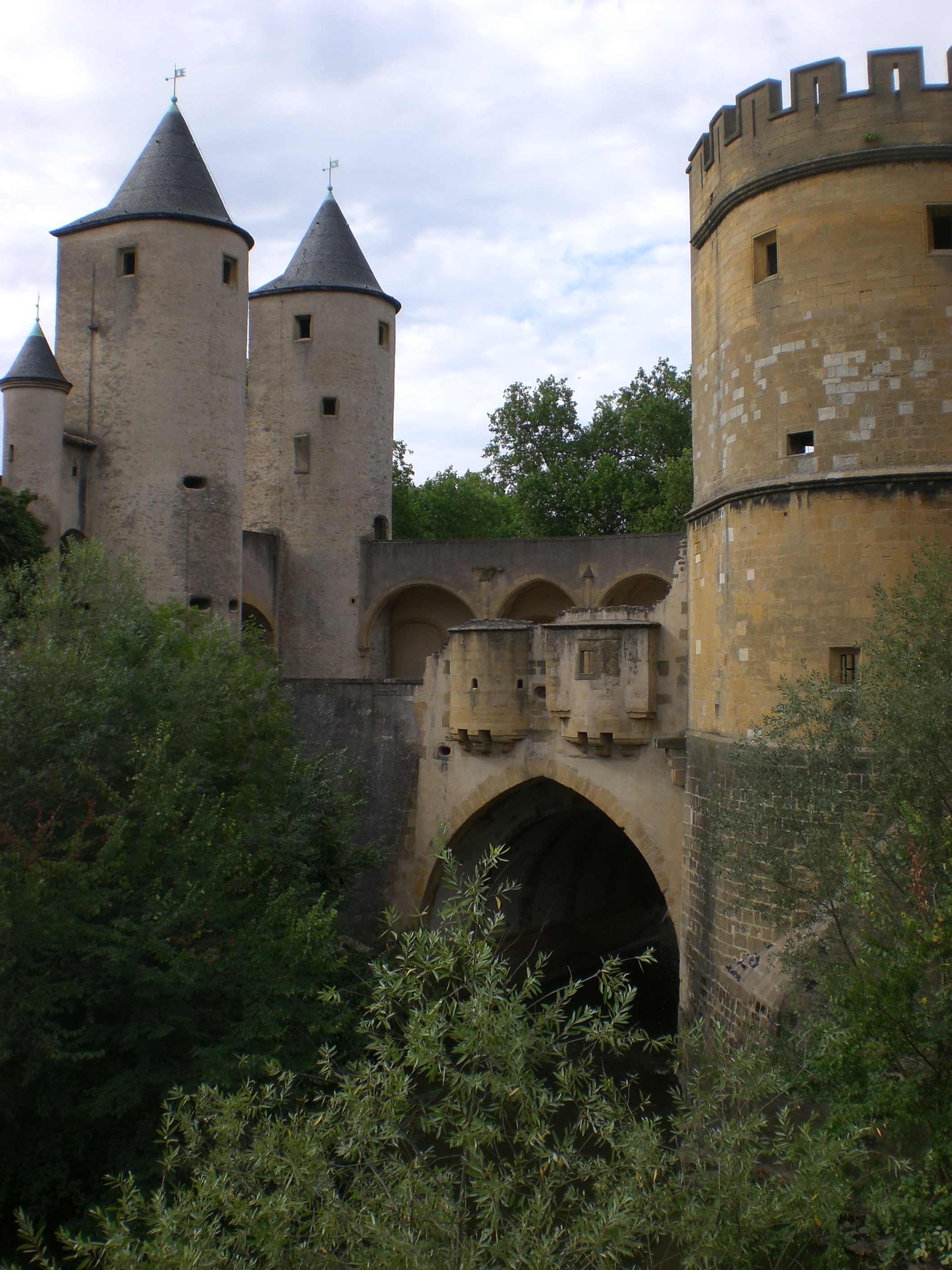 Metz: Germans Gate, 1230 and 1445